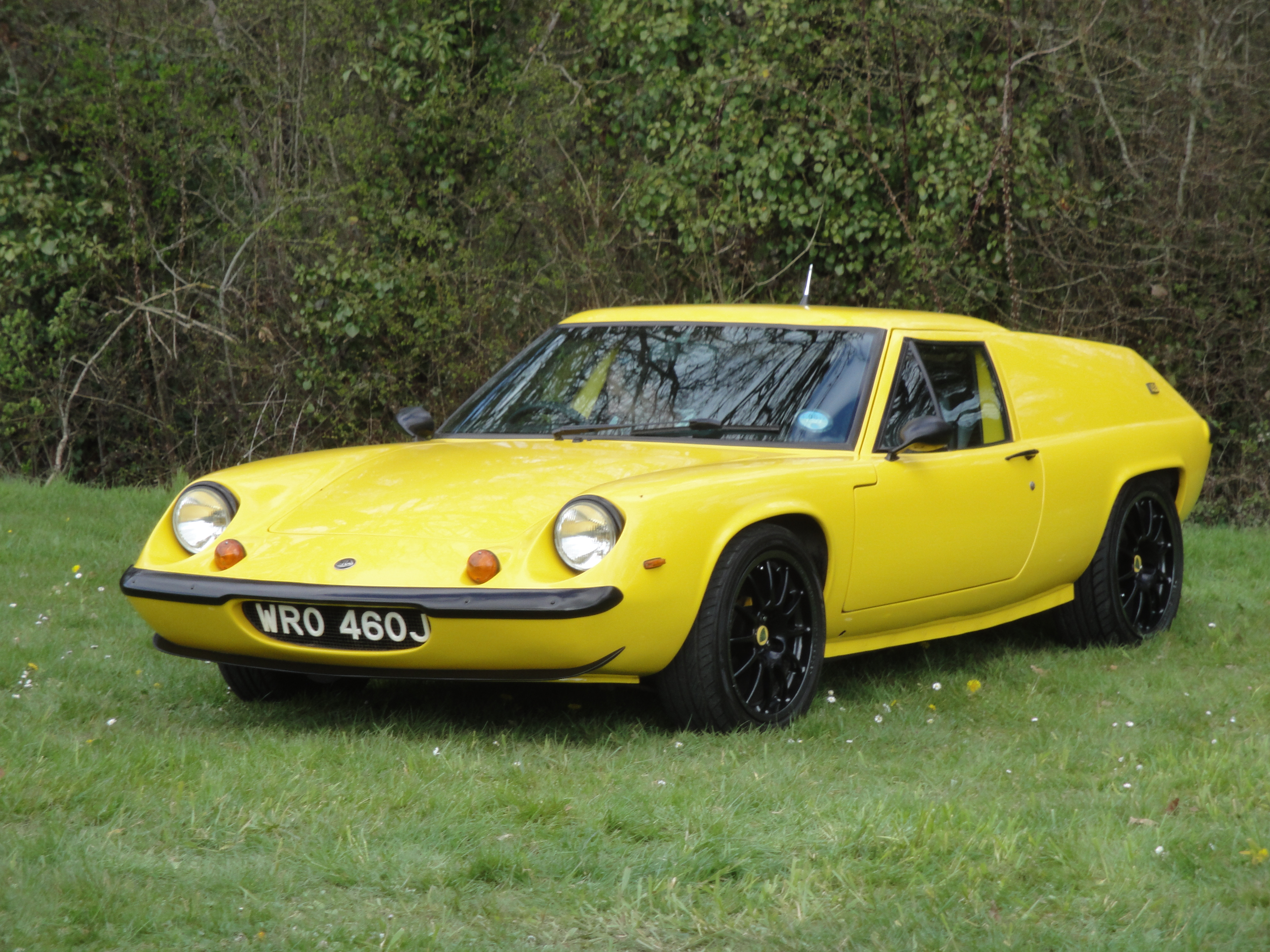 An old car (unidentified) WRO 460J, at Havenstreet railway station, Isle of Wight, for the Bustival 2012 event, held by Southern Vectis.